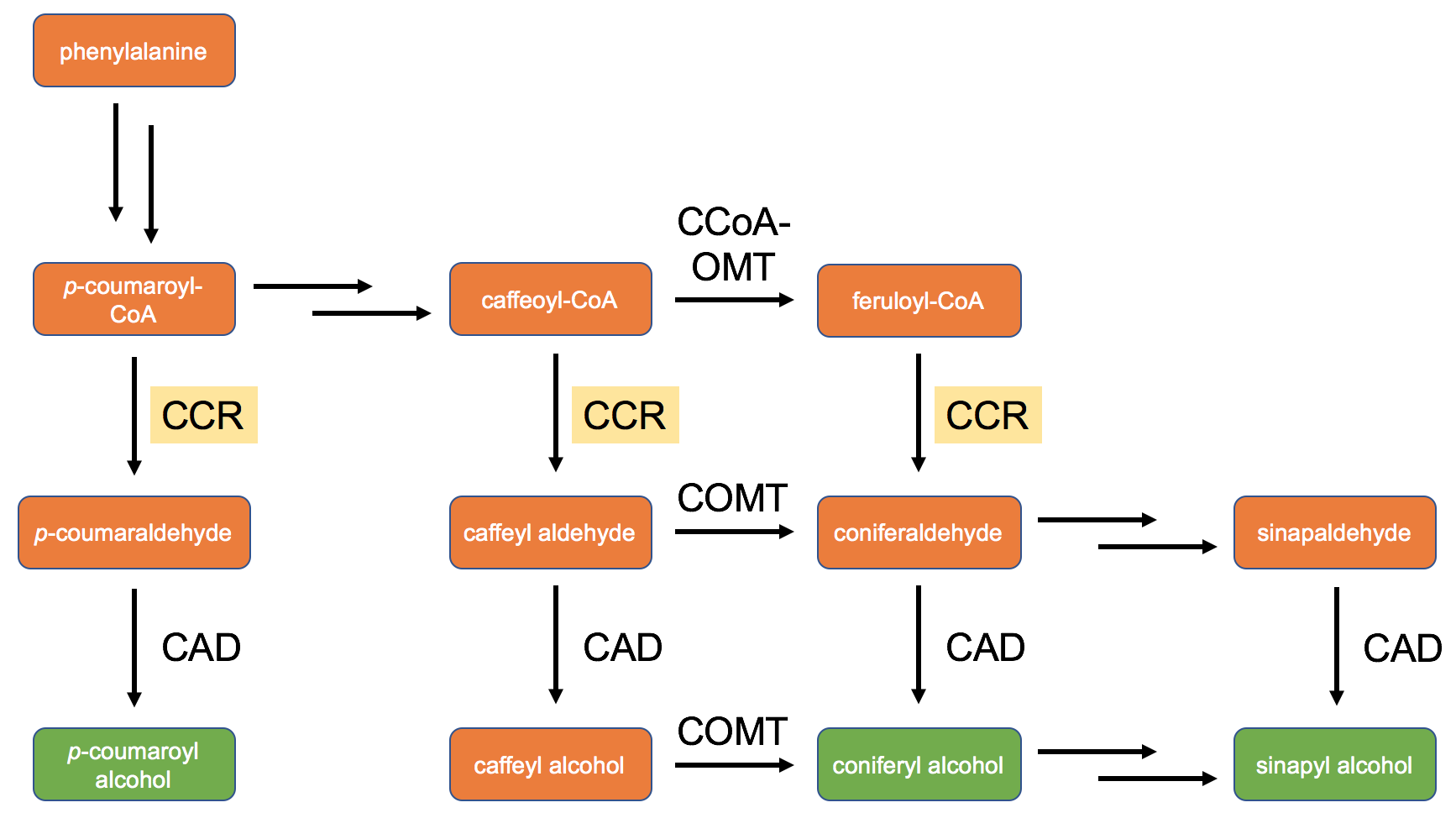 Simple image of monolignol biosynthetic pathway in plants